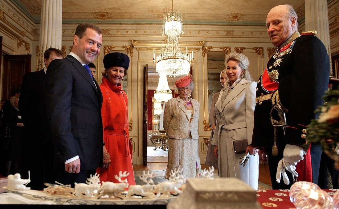 Presient Dmitry Medvedev's two-day state visit to Norway has begun. During official greeting ceremony in Norway's Royal Palace the Russian President and the King of Norway exchanged gifts.